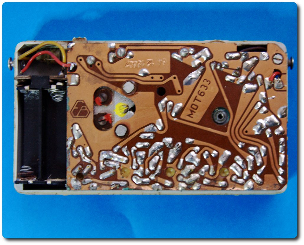 Polish transistor radio Eltra Koliber 3